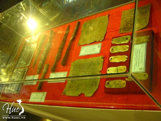 pieces of Đông Sơn bronze lamellar armor and breastplates.